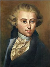 Giovanni Battista Bassani (ca. 1657–1716), Italian composer, violinist, and organist